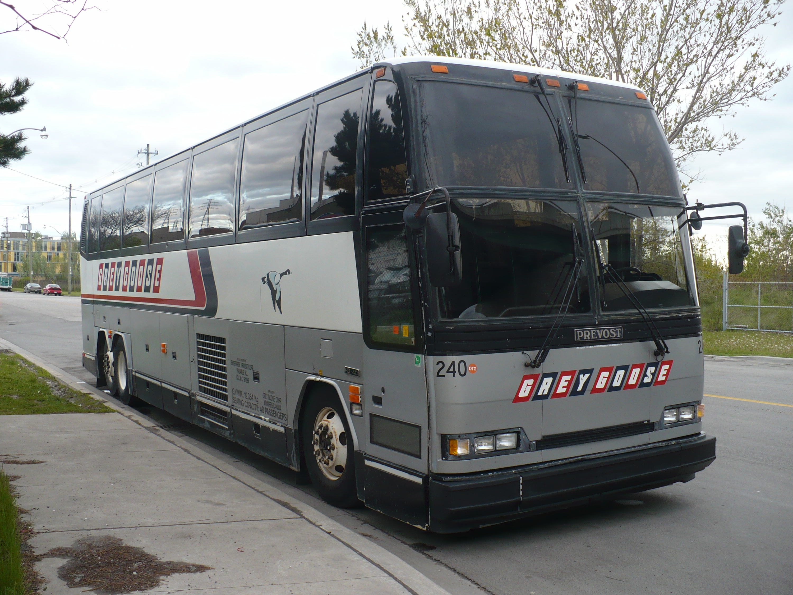 Grey Goose Bus Lines #240